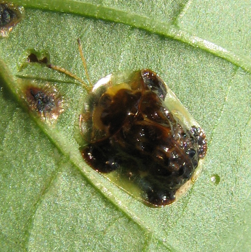 Tortoise beetle, Plagiometriona clavata. Pennypack Restoration Trust, Montgomery County, Pennsylvania, USA.